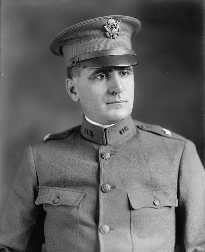 William Edward Cole (February 22, 1874 – May 18, 1953) was a Major General in the United States Army.